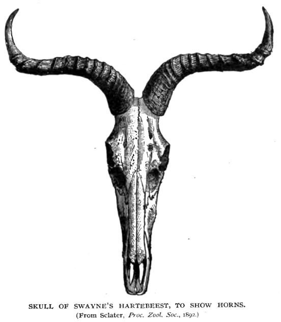 Horns of Hartebeest